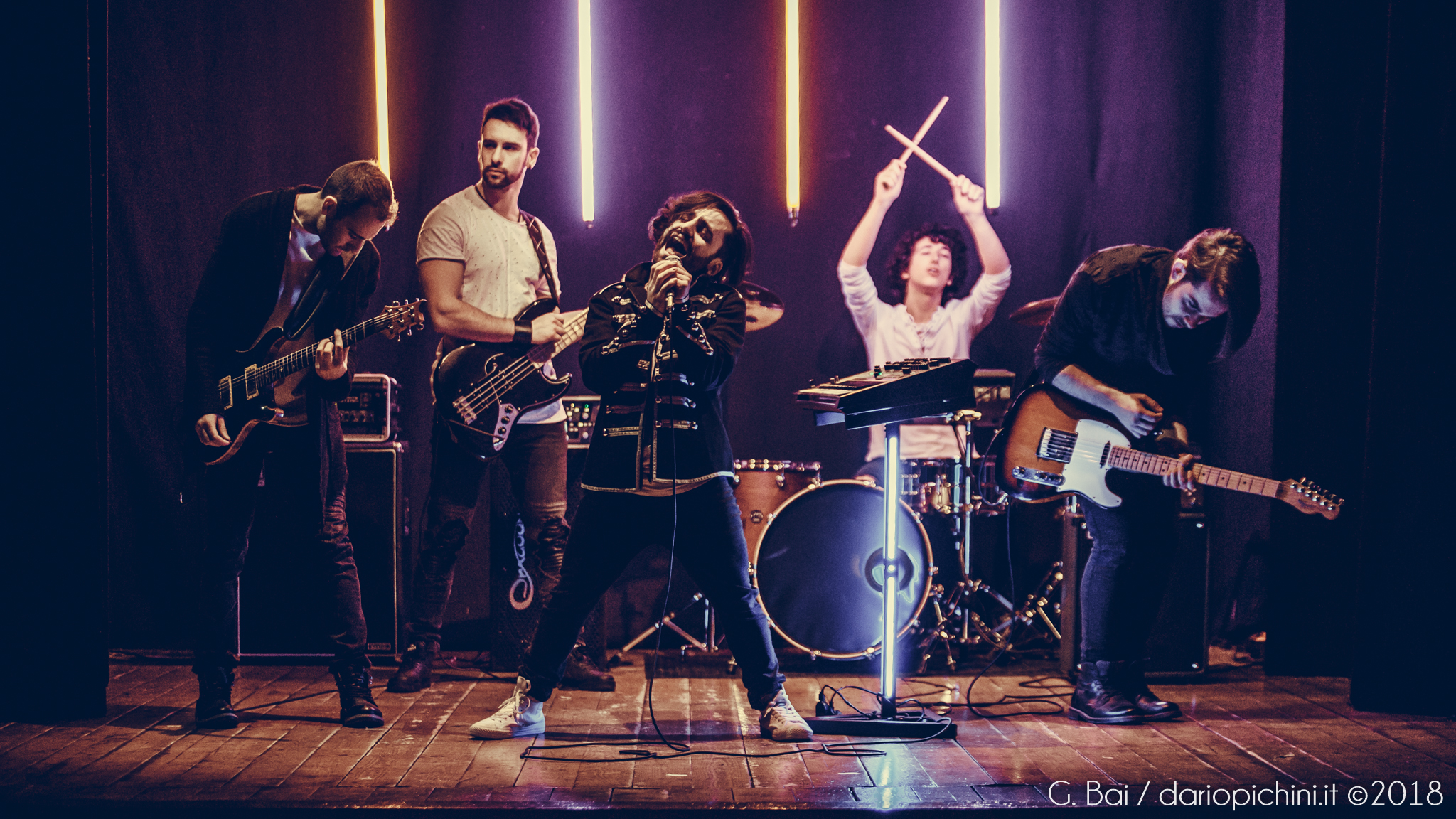 Deschema, Artista Musicale